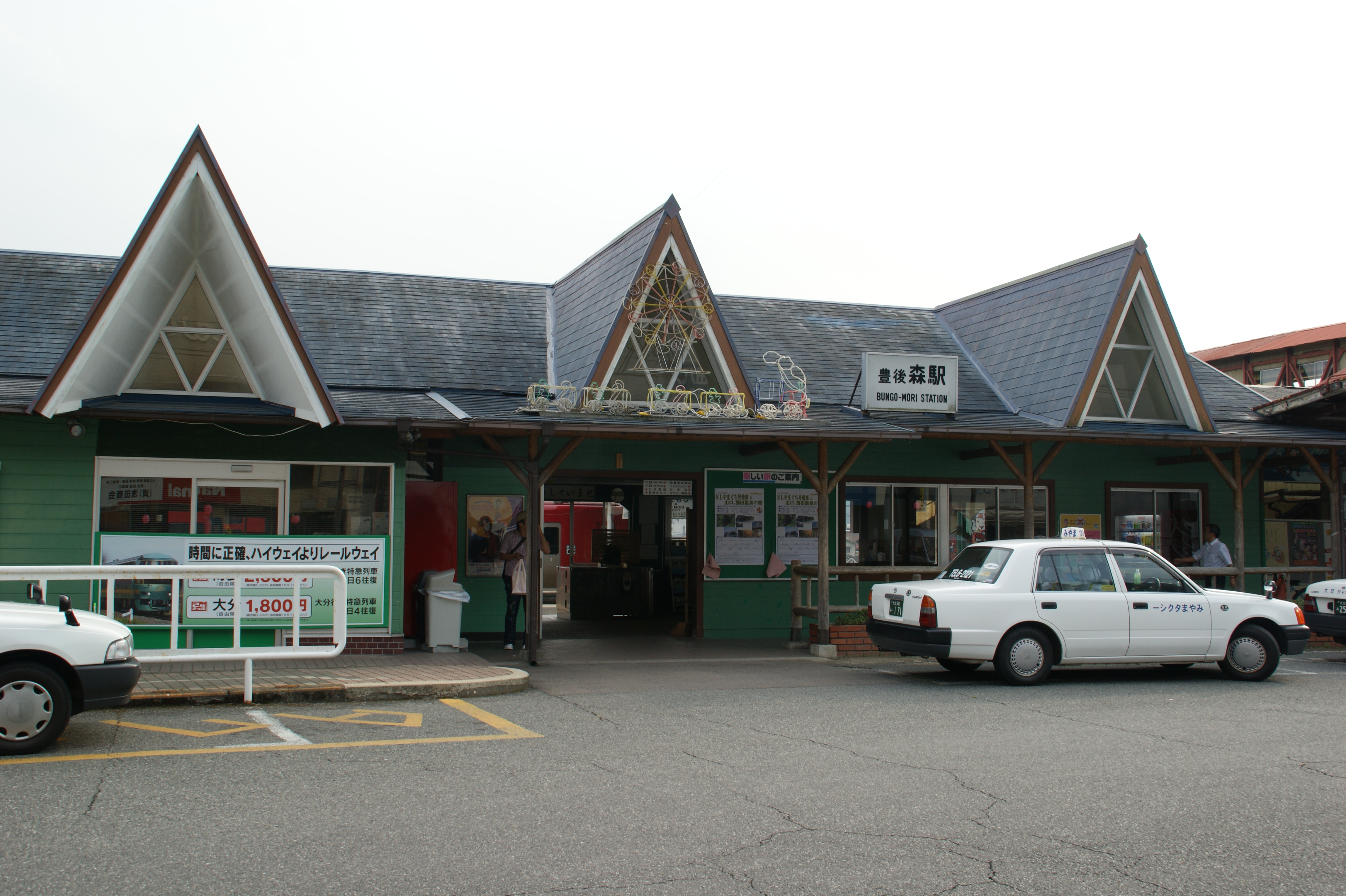 Kyushu Railway, Bungo-Mori Station.(Kusu Town, Oita Prefecture, Japan)